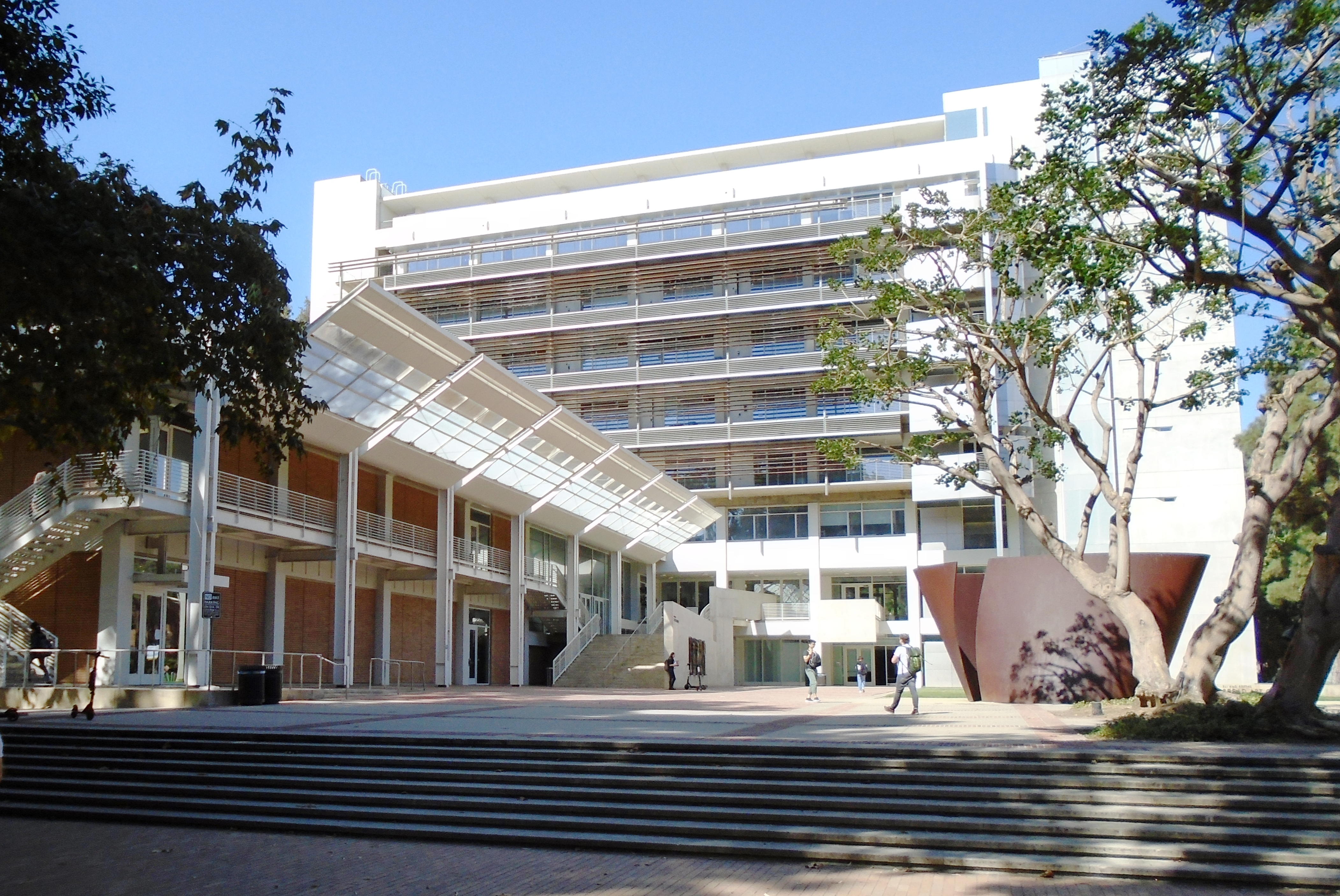 The Eli and Edythe Broad Art Center on the campus of the University of California, Los Angeles was built in 2006 and was designed by Richard Meier. It houses UCLA's School of the Arts and Architecture, and replaces a building damaged in the 1994 Northridge earthquake. Outside is Richard Serra's sculpture "T.E.U.C.L.A.", his first piece to be on permanent public display in Southern California. (Source: Broad Foundation)